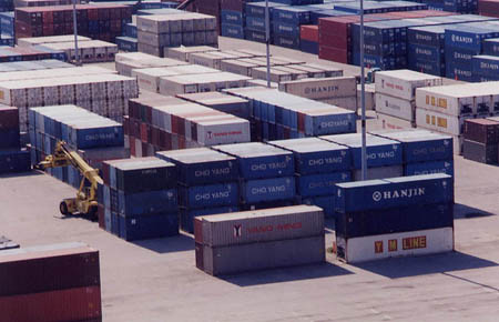 Photos from the Port of Morehead City, N.C. / Container yard 2/9/2001 Official U.S. Maritime Administration website. Sean T. Connaughton, Maritime Administrator.